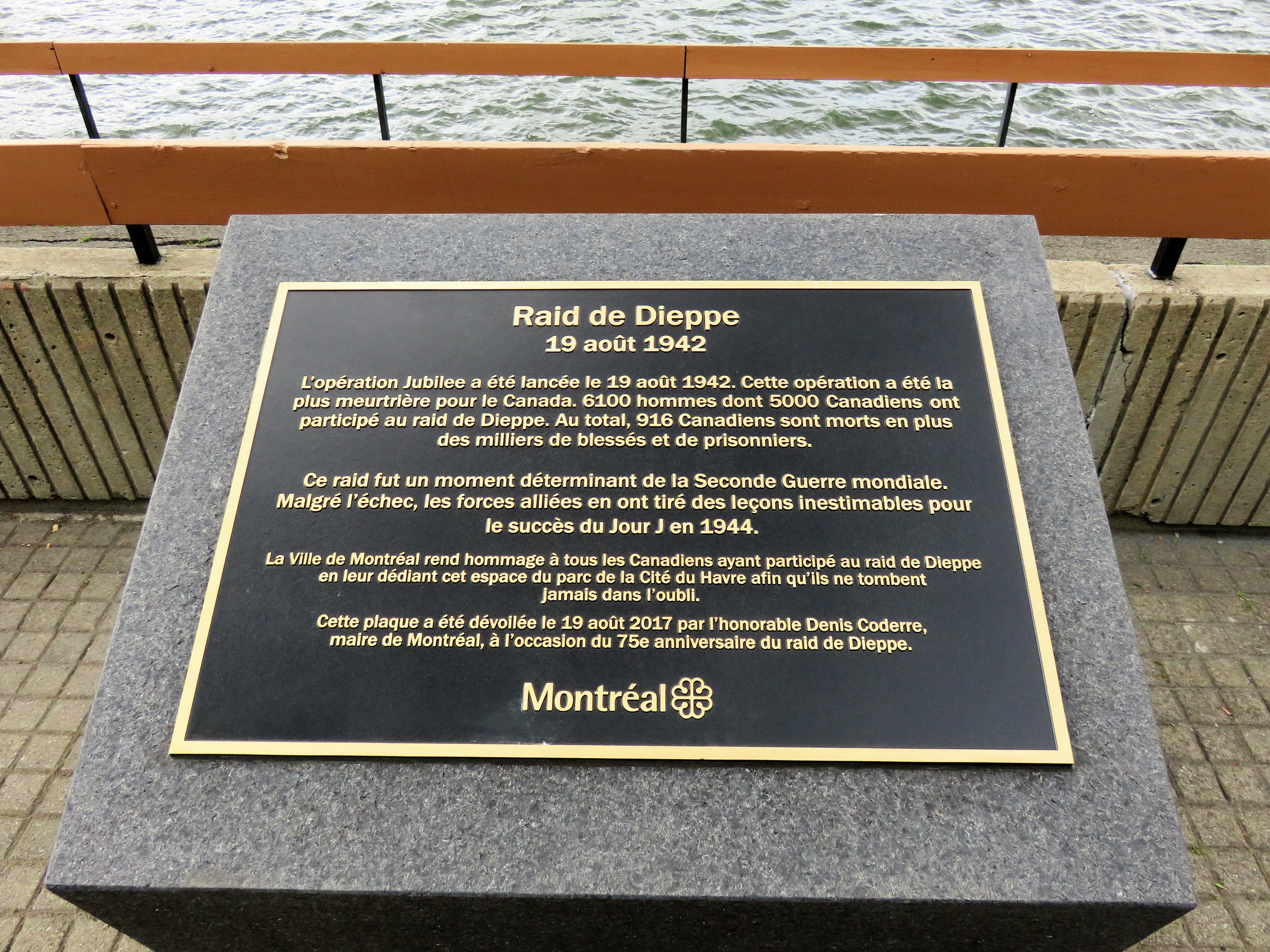 Commemorative plaque of Dieppe Raid, parc de Dieppe, Montreal, Quebec, Canada.